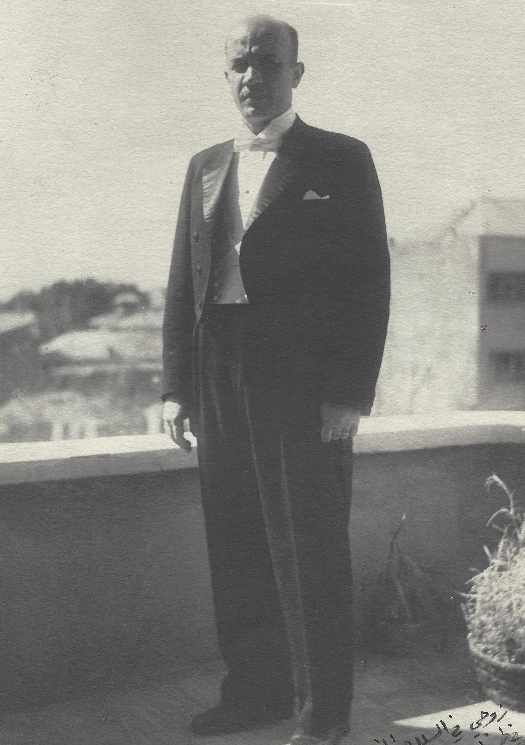 Muhammad As'ad Tlass (1913-1959) is a well-known Syrian writer, thinker and politician